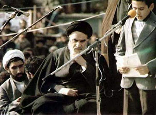 Ruhollah Khomeini in behesht-e zahra (1 february 1979)